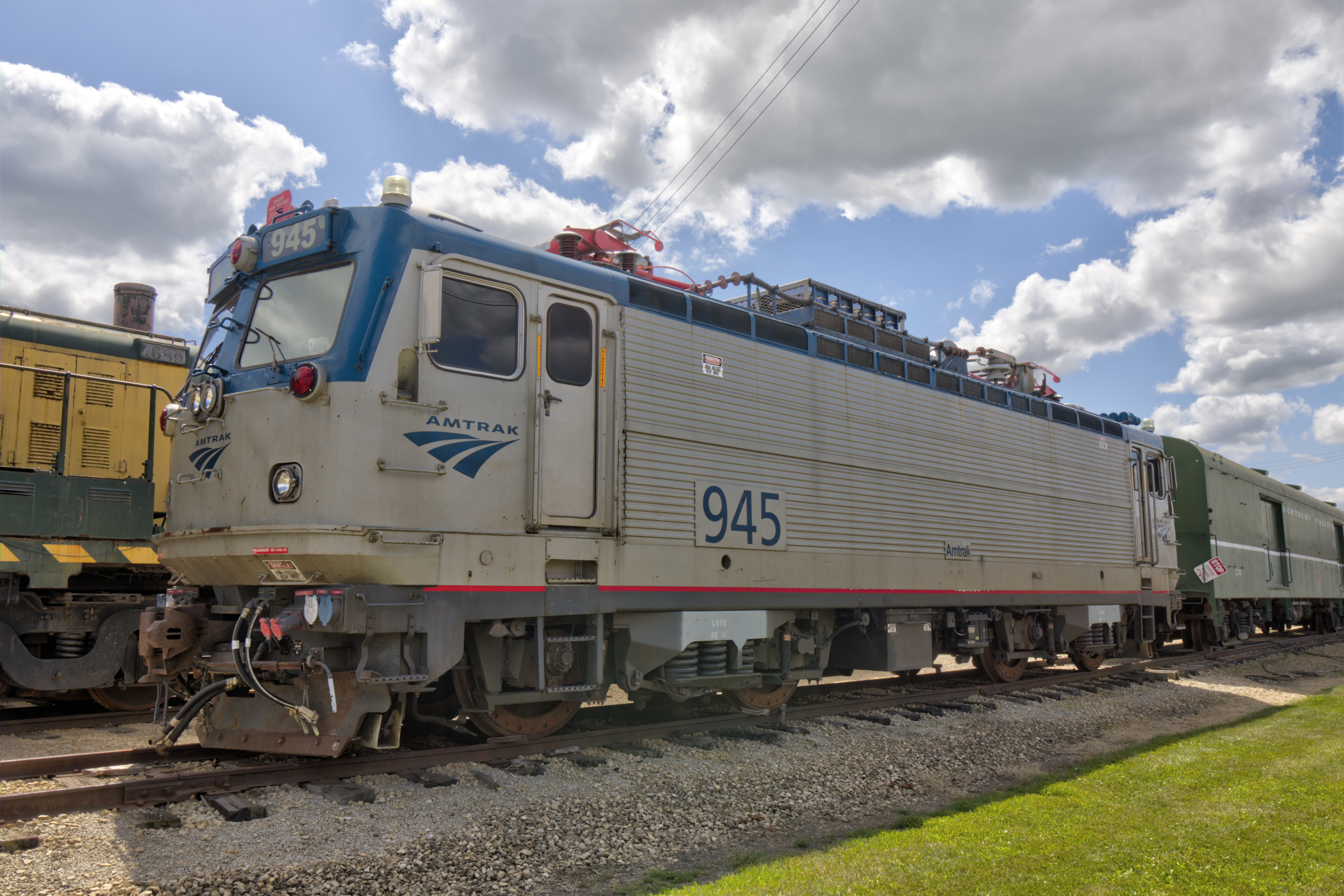 Amtrak 945, an EMD AEM-7, is preserved at Illinois Railway Musuem.